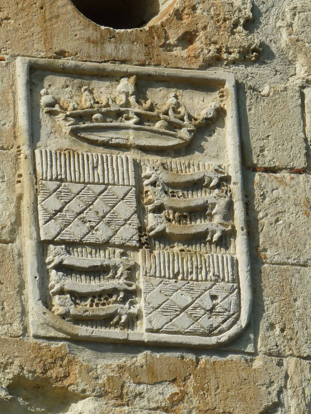 English coat of arms on the gate of the castle of Aubeterre-sur-Dronne, Charente, SW France; Middle Age